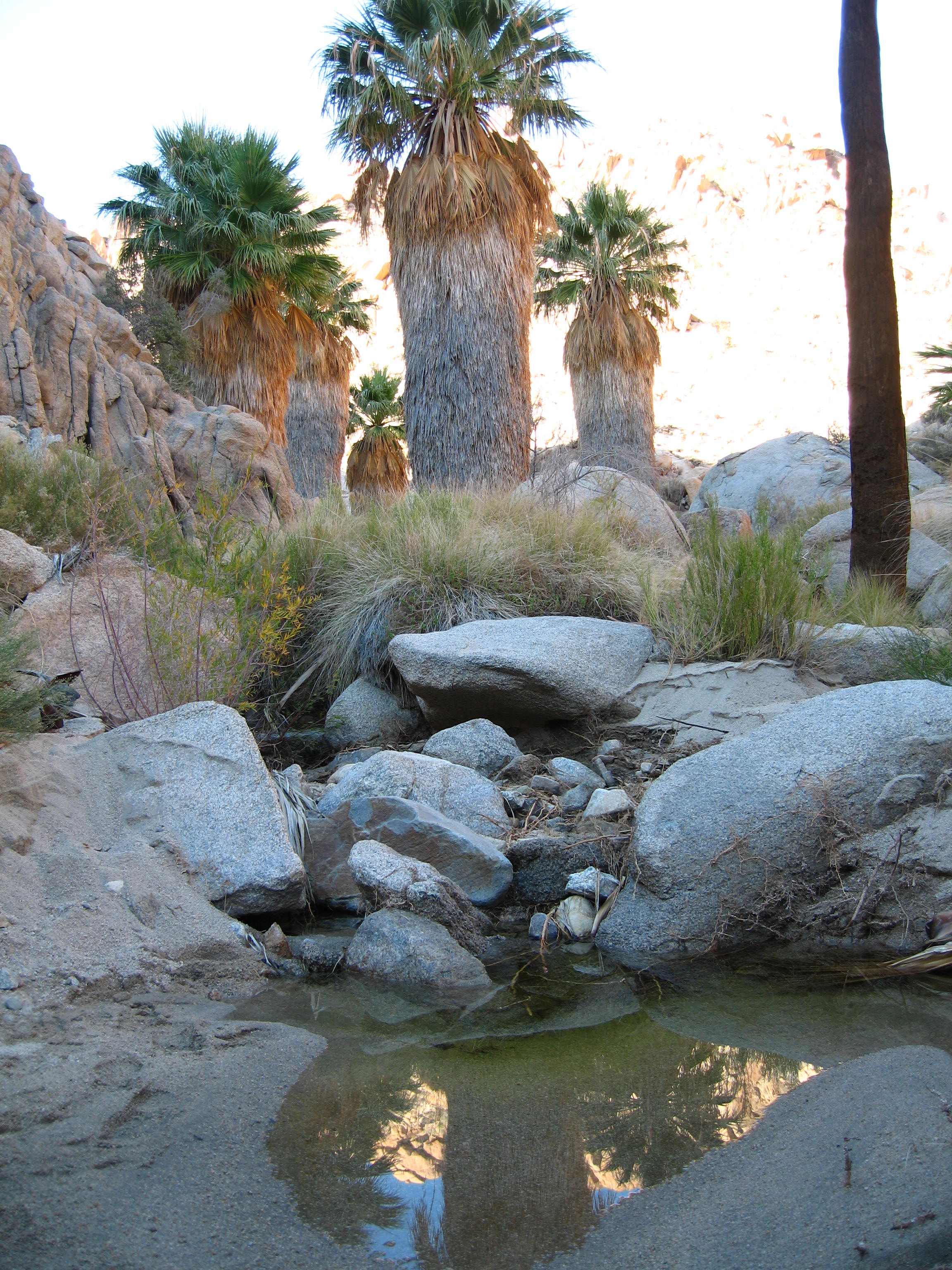 Lost Palms Canyon and Oasis in Joshua Tree National Park is located 3.6 miles (5.7km) from Cottonwood Visitor Center.